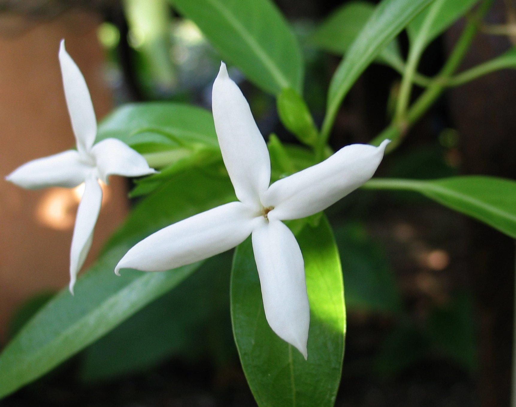 Kamapuaʻa [syn. Hedyotis fluviatilis] Rubiaceae Endemic to the Hawaiian Islands Endangered Oʻahu (Cultivated)